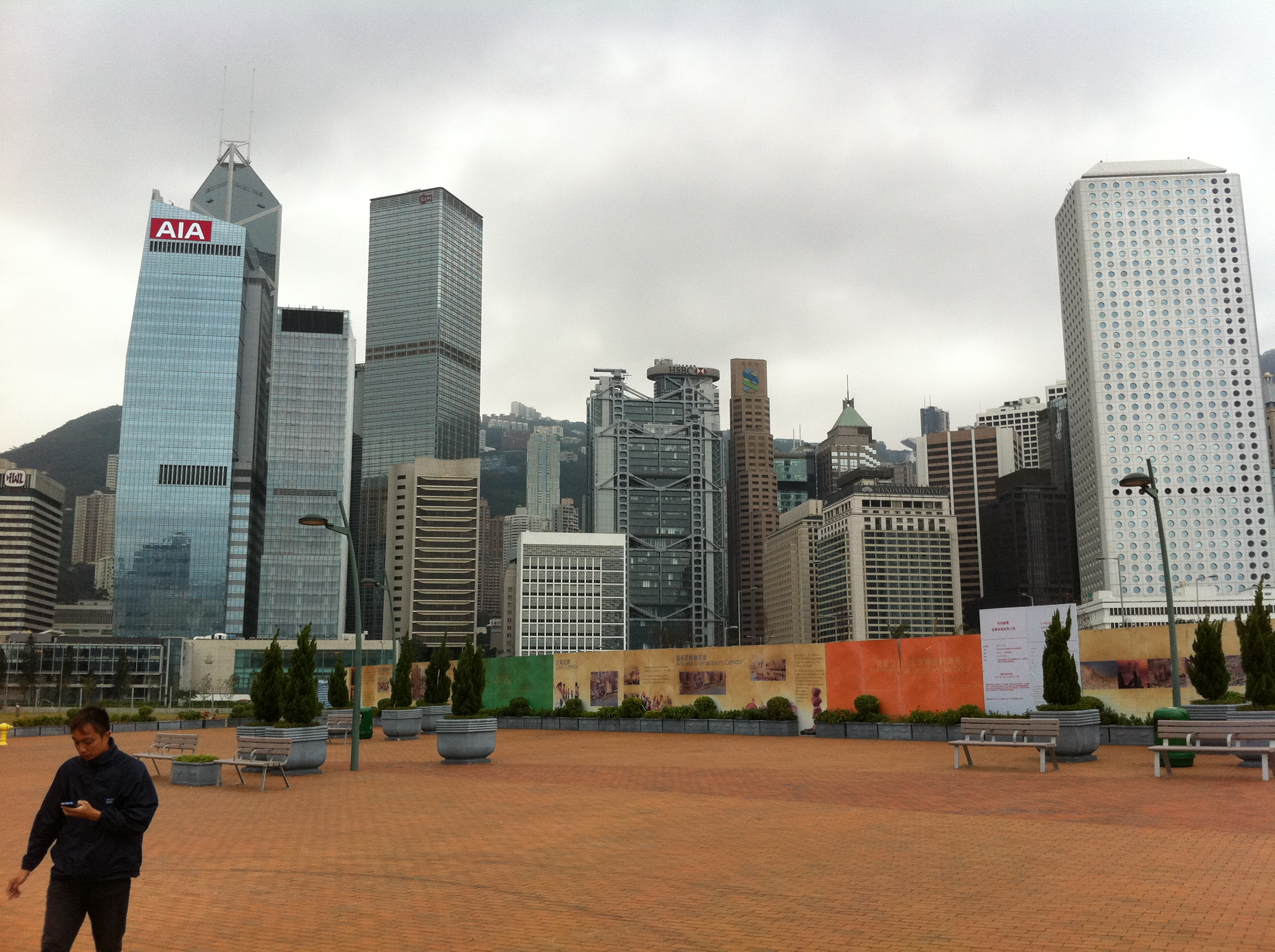 View from the Central to Admiralty Waterfront Promenade & public piers